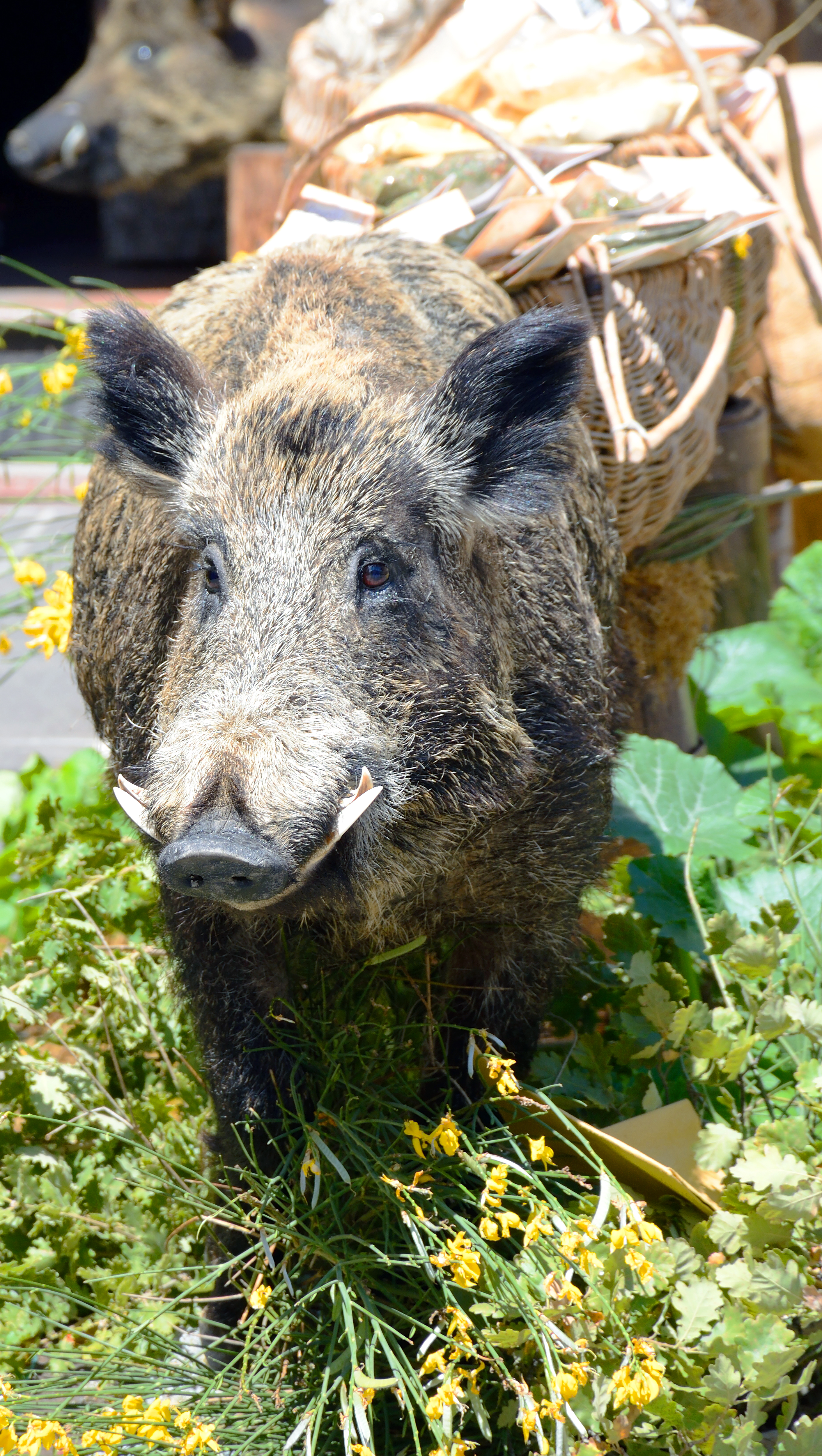 Boar embalmed in Norcia